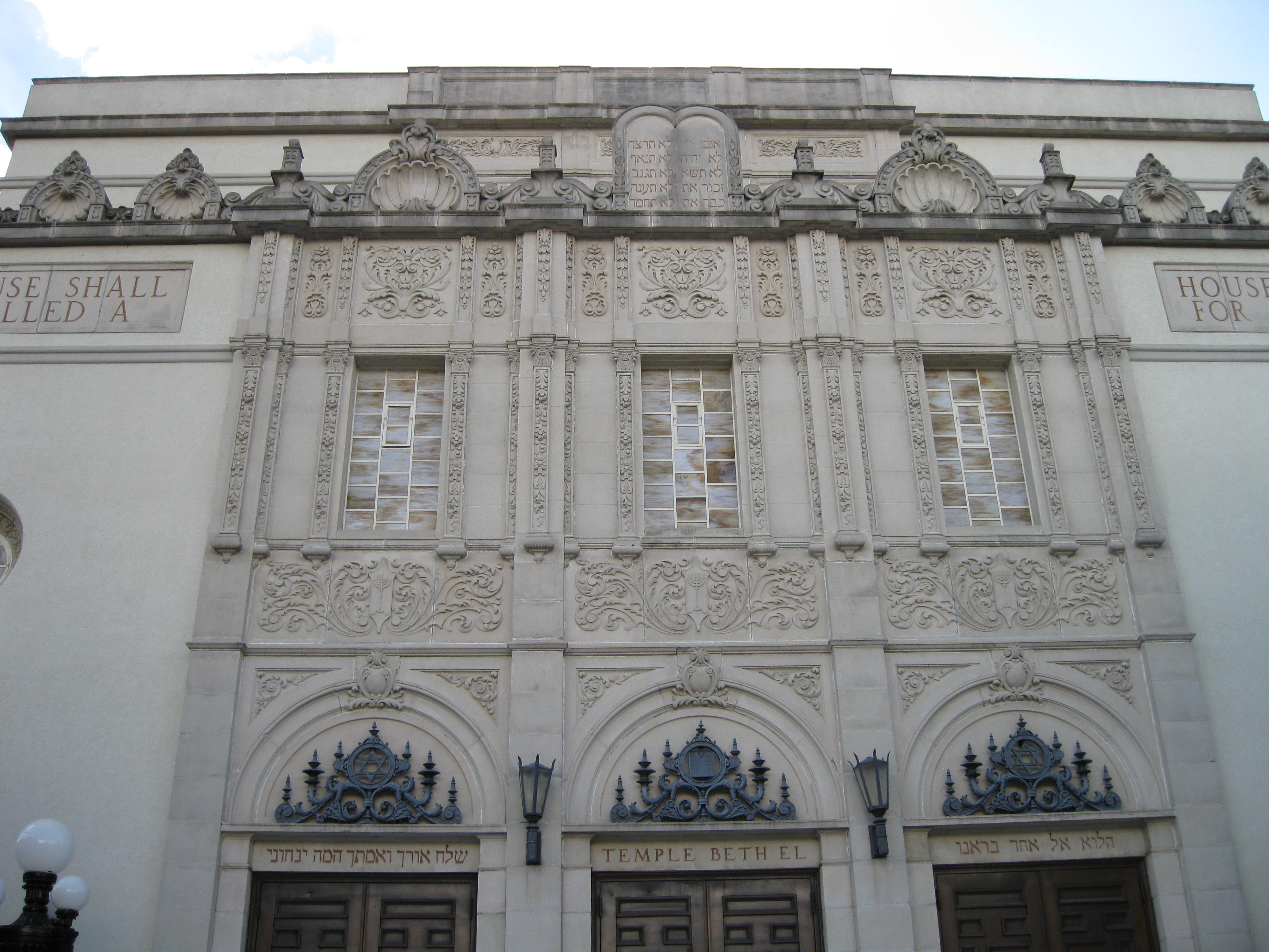 Temple Beth-El, San Antonio, Texas.